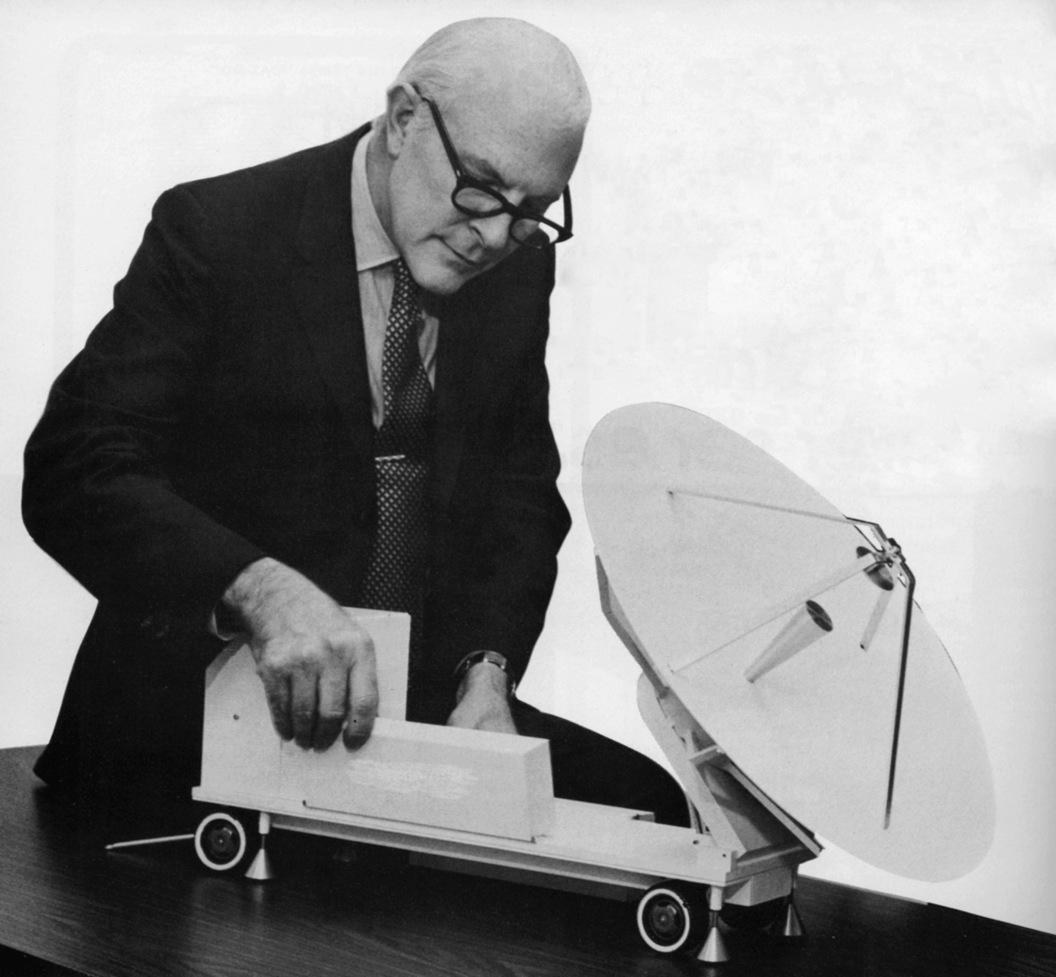 Hubert Schlafly with a model of a mobile earth station he designed (built by Scientific-Atlanta) that was used for the first satellite transmission of a cable television signal at the 1973 National Cable Television Association Cable Show in Anaheim. Published in TV Communications, May 1974, p. 56.